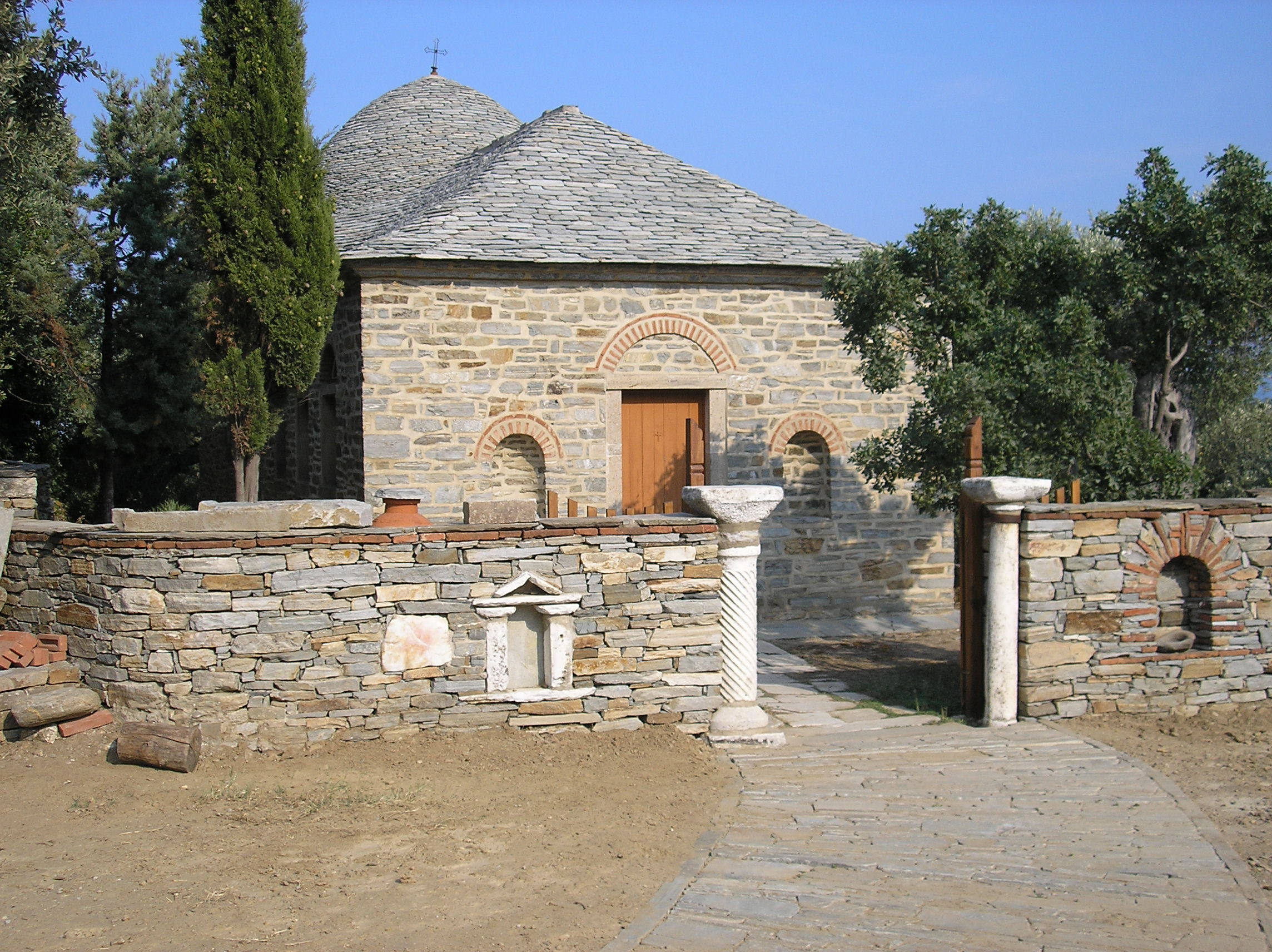 The chapel of Saint Demetrius at Stavronikita monastery at Mount Athos, Greece. Photo taken by Thodoris Lakiotis, August 2006. Posted under GFDL with his permission.